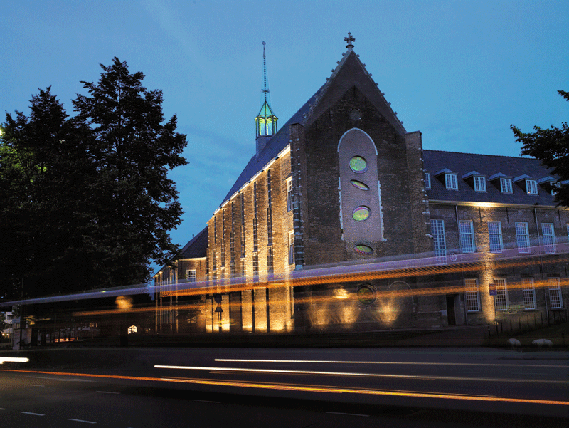 Holland Casino Breda